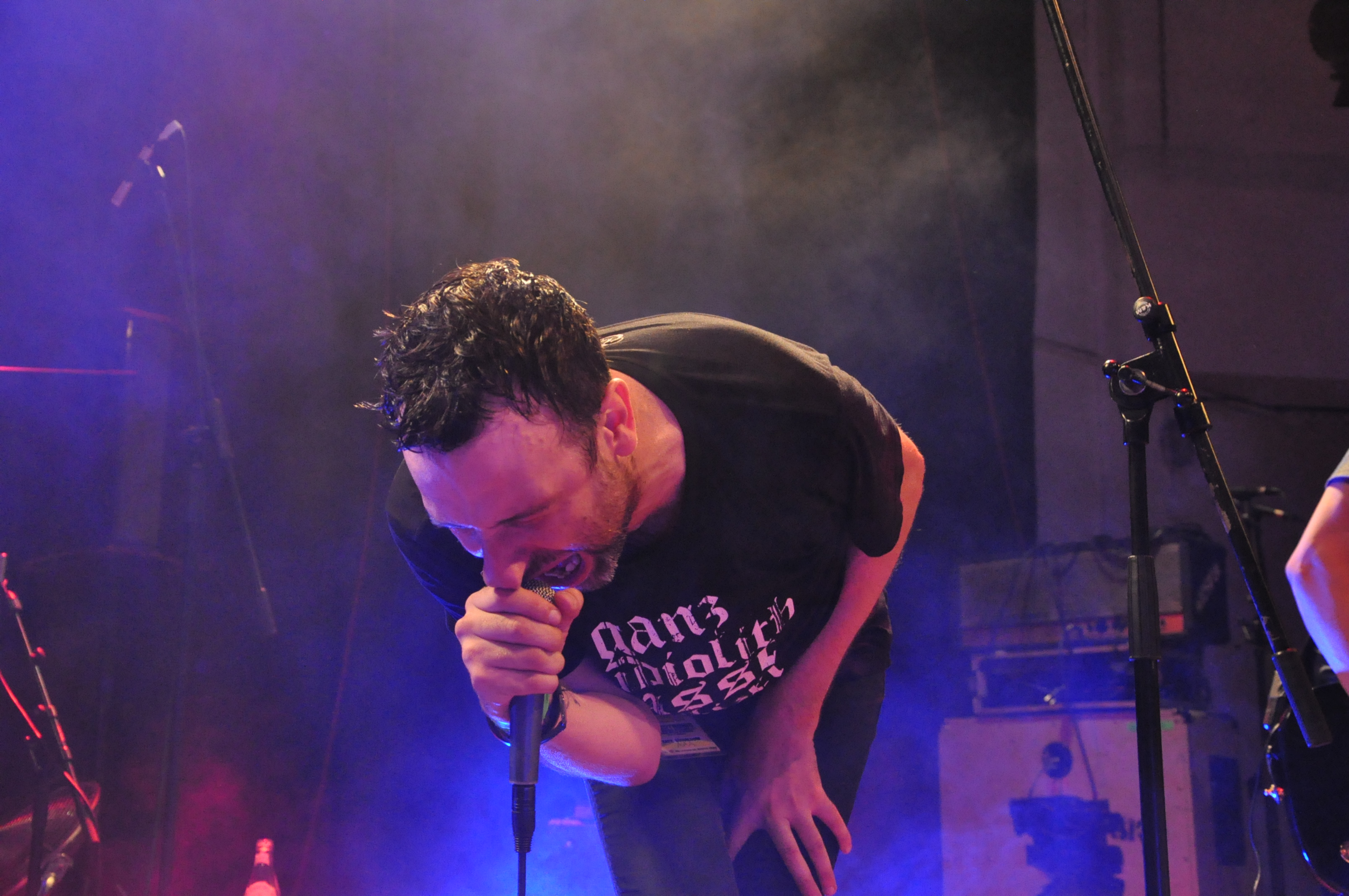 The German Electropunk band Egotronic at Kein Bock auf Nazis Festival, Düsseldorf 2013